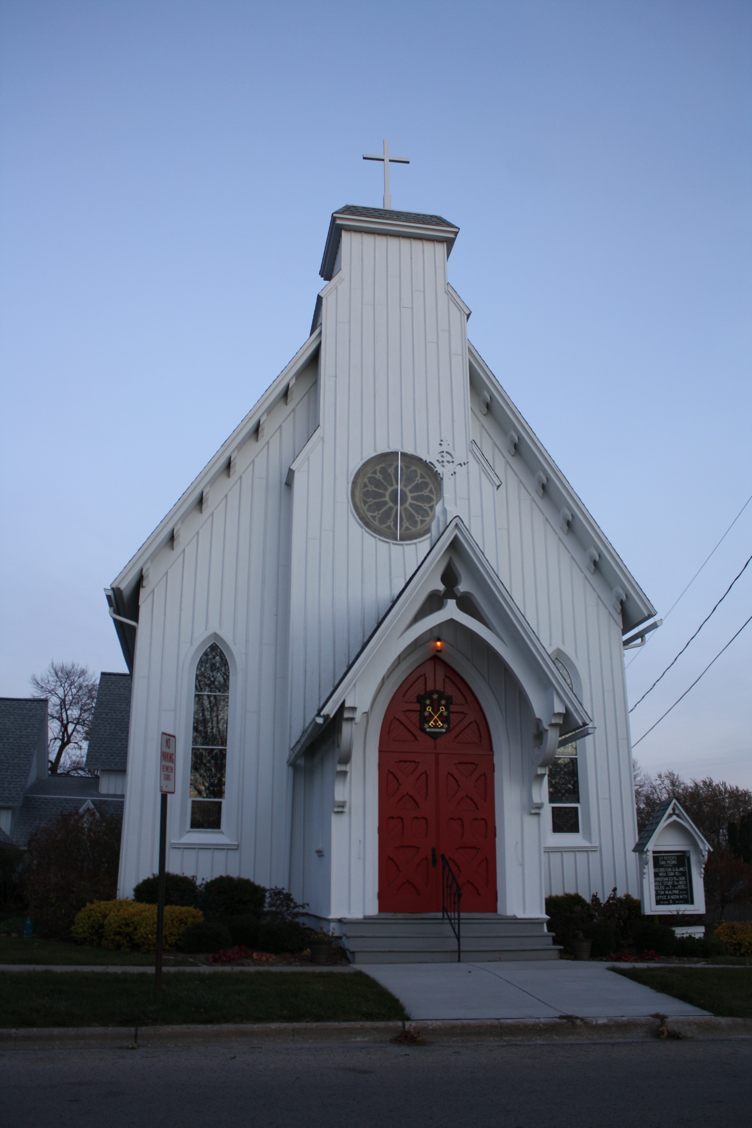 The St. Peter's Episcopal Church (Ripon, Wisconsin) in Ripon, Wisconsin. It is listed on the National Register of Historic Places.